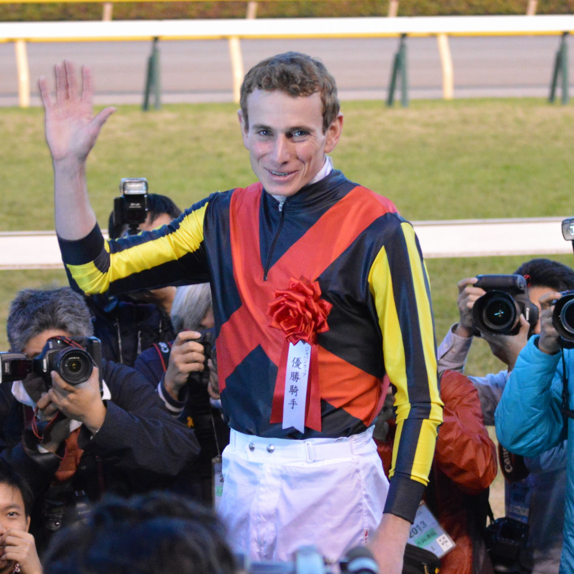 2013年ジャパンカップにて勝利騎手インタビューを受けるライアン・ムーア騎手Ryan Lee Moore jockey receiving an interview at the Japan Cup awards ceremony.